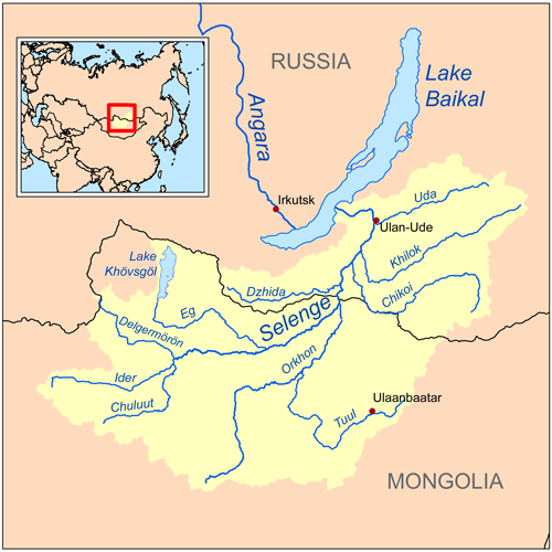 This is a map of the Selenge River drainage basin.